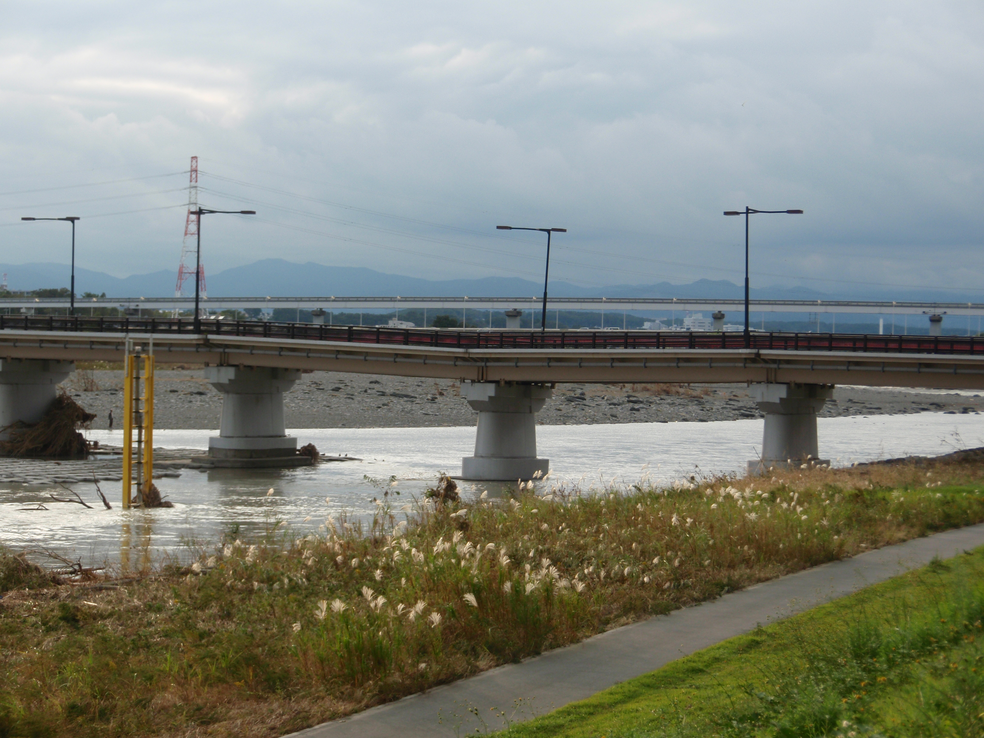 Hino Bridge damaged by Typhoon Hagibis (2019), Tama River, between Hino and Tachikawa, Tokyo, Japan.